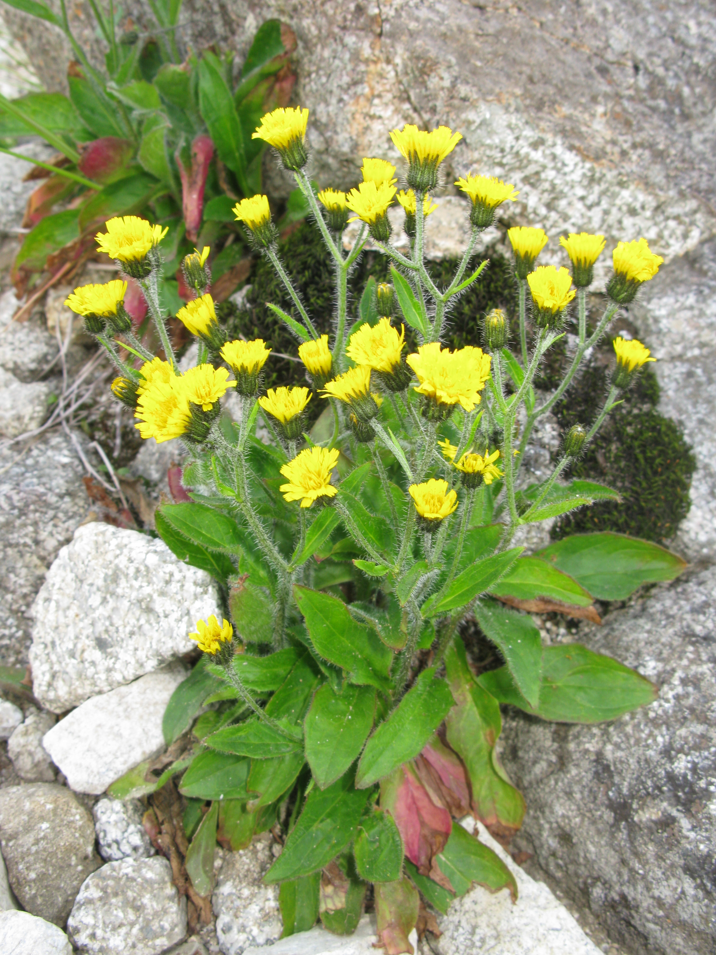 Hieracium japonicum, Mt. Iide, Fukushima pref., Japan